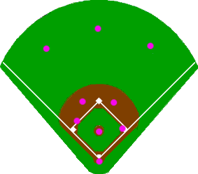 Baseball positioning, double play depth.